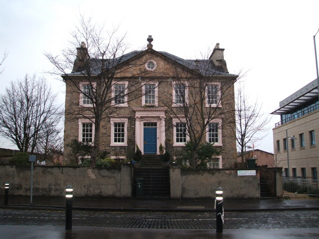 Gayfield House, 18 East London Street, Edinburgh. A builder called William Butler built Gayfield House in 1763 as a stylish country villa combining Scots Palladian with Dutch details and a touch of French decor, within walking distance of the crowded Old Town of Edinburgh. In 1765 butler sold it for £2,000 to Thomas, Lord Erskine, the eldest son of the Earl of Mar. The Earl of Mar or 'Bobbin John' had led the First Jacobite Rebellion in 1715. In 1767, after Lord Erskine's death it was sold to the Earl of Leven. An entry in the Scots Magazine at the time states: "Marriage. June 10th. At Gayfield, near Edinburgh, the Earl of Hopetoun to Lady Betty Leven." A late 18th century print shows Gayfield House standing in attractive grounds, surrounded by fields and by orchards, bounded to the South East by Leith Walk. The fortunes of the house gradually declined in the 19th century as Edinburgh expanded. In 1874, it was sold to form a Veterinary College, and remained in this use for 30 years. In 1904 it was bought by a merchant who stored manure in the downstairs rooms. After World War 1 it was used as a laundry which also manufactured ammonia and bleach. It was used as a garage and for car repairs in the 1970s when a hole was opened in it's facade and the basement used as a garage. By 1990 it had fell into disrepair and was vandalised. A roofer Trevor Harding bought it and restored it. He sold it in 2013.